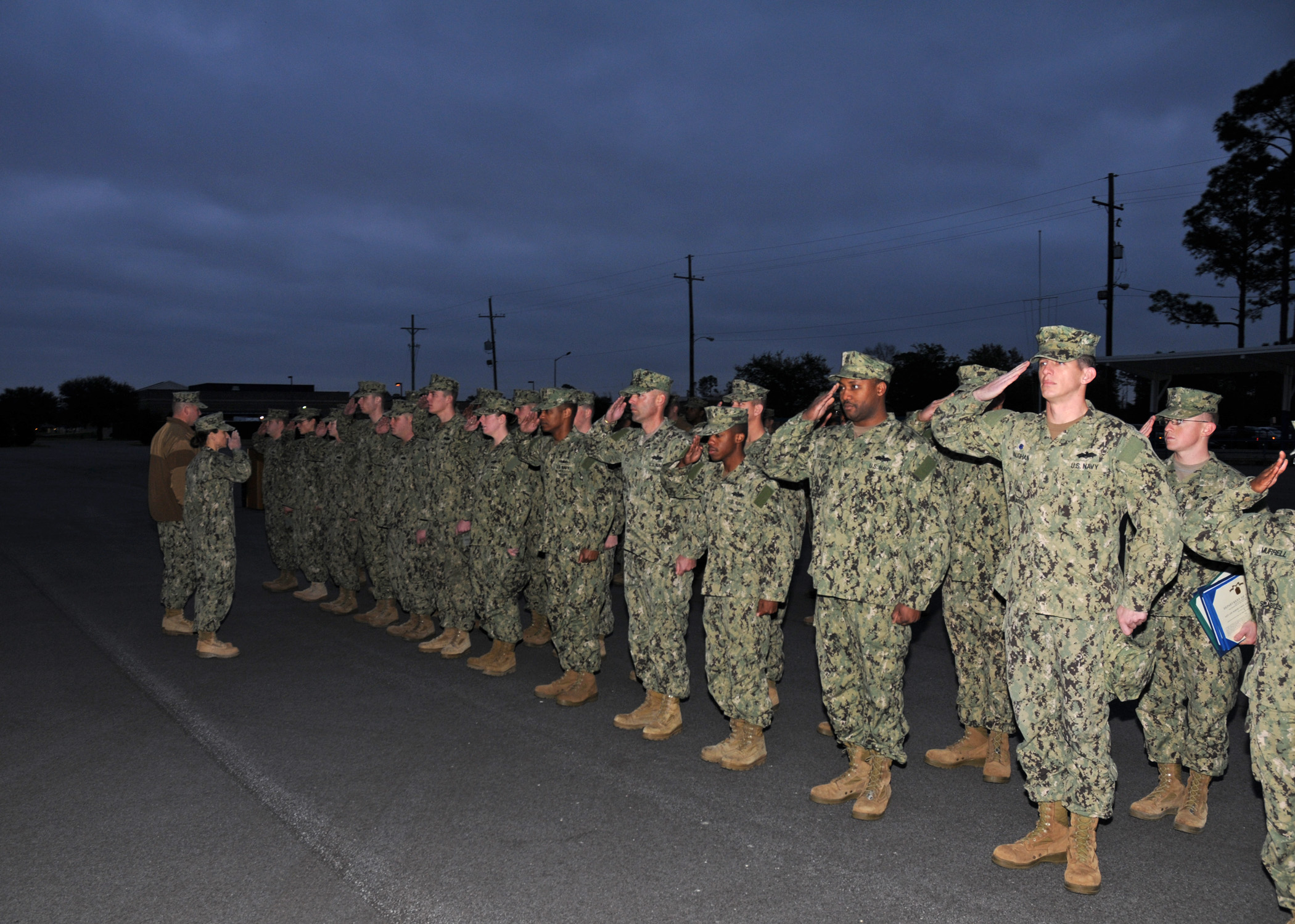 GULFPORT, Miss. (Jan. 8, 2013) Seabees assigned to Naval Mobile Construction Battalion (NMCB) 11 render a salute to Cmdr. Lore Aguay, commanding officer of NMCB-11, to begin an awards presentation ceremony on the grinder at Naval Construction Battalion Center, Gulfport. (U.S. Navy photo by Mass Communication Specialist 1st Class Jonathan Carmichael/Released) 130108-N-UH337-001 Join the conversation navylive.dodlive.mi